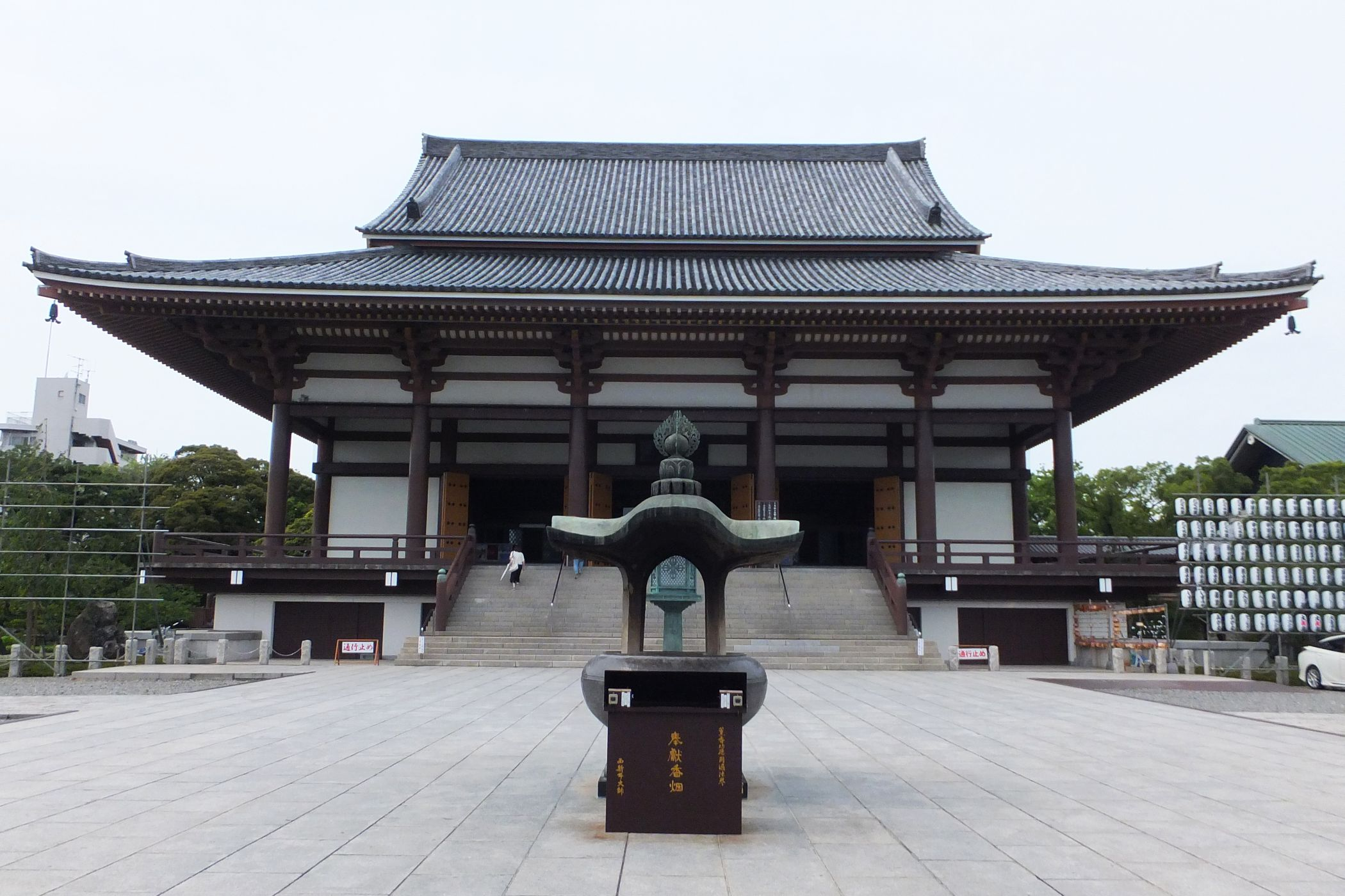 Main hall of Nishiarai Daishi temple in Adachi, Tokyo